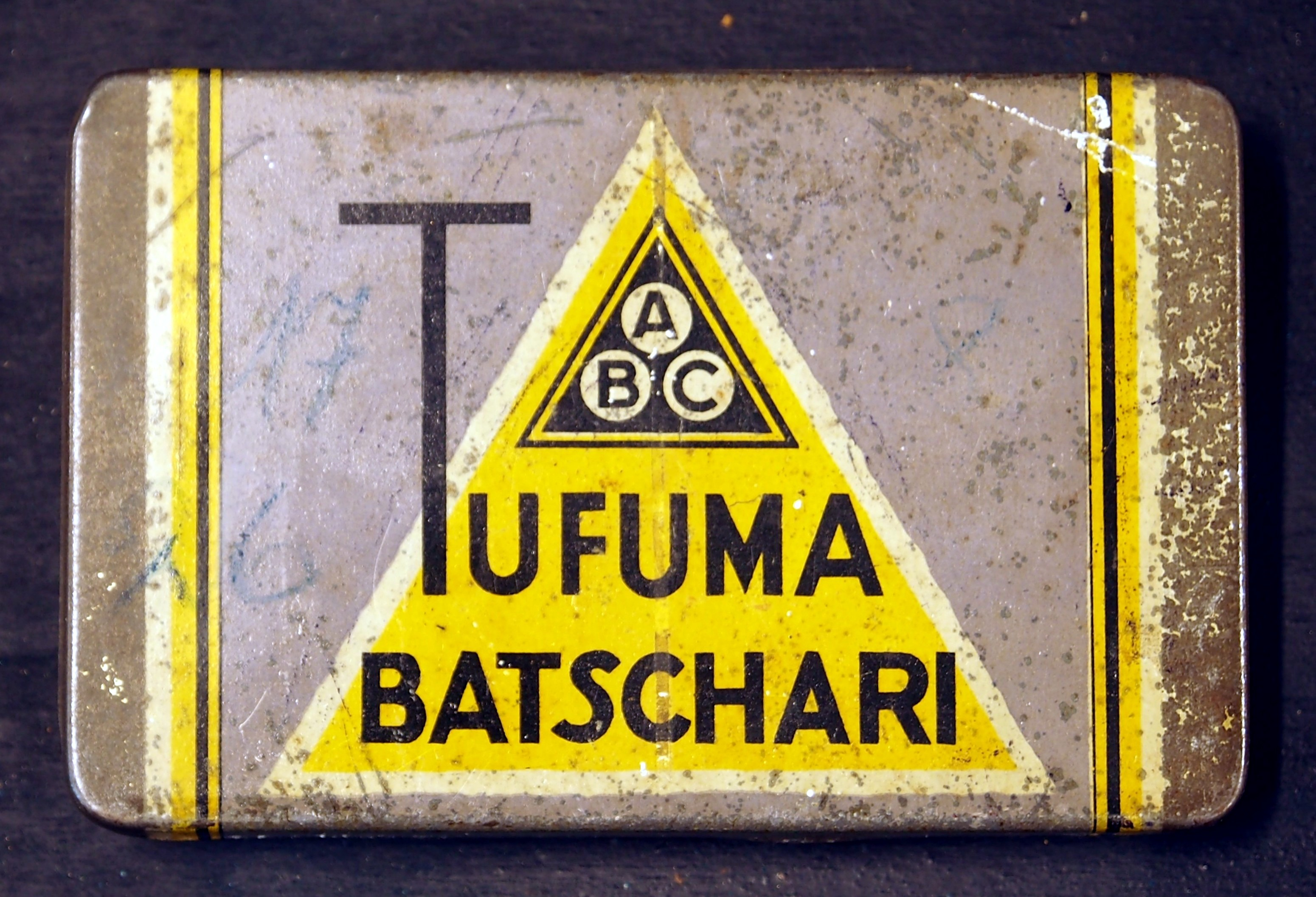 Old product not sold anymore!